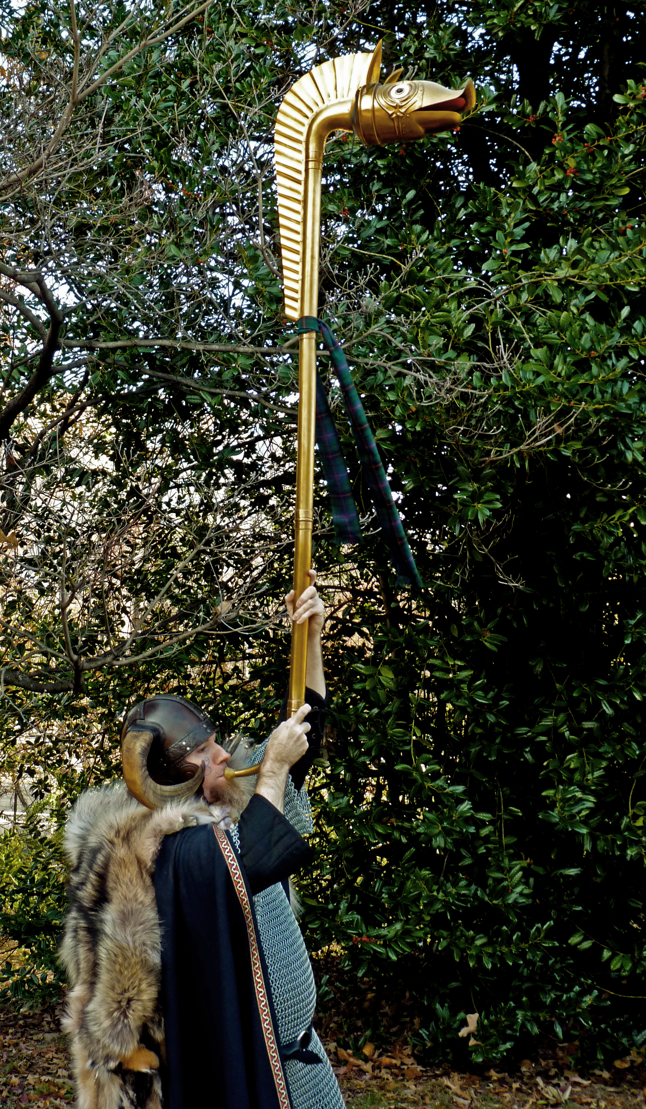 A modern reenactor portraying an Ancient Celt (Vacomagi tribe, a.k.a Caledonian/Pict/Briton) with carnyx trumpet, crested helmet, chain mail (chainmaille), and woad circa 100-300 AD. The carnyx was used for war (signaling and intimidation), and ritual occasions as depicted on the Gundestrup cauldron. The costume, helmet and appearance were inspired by contemporary depictions and written accounts.